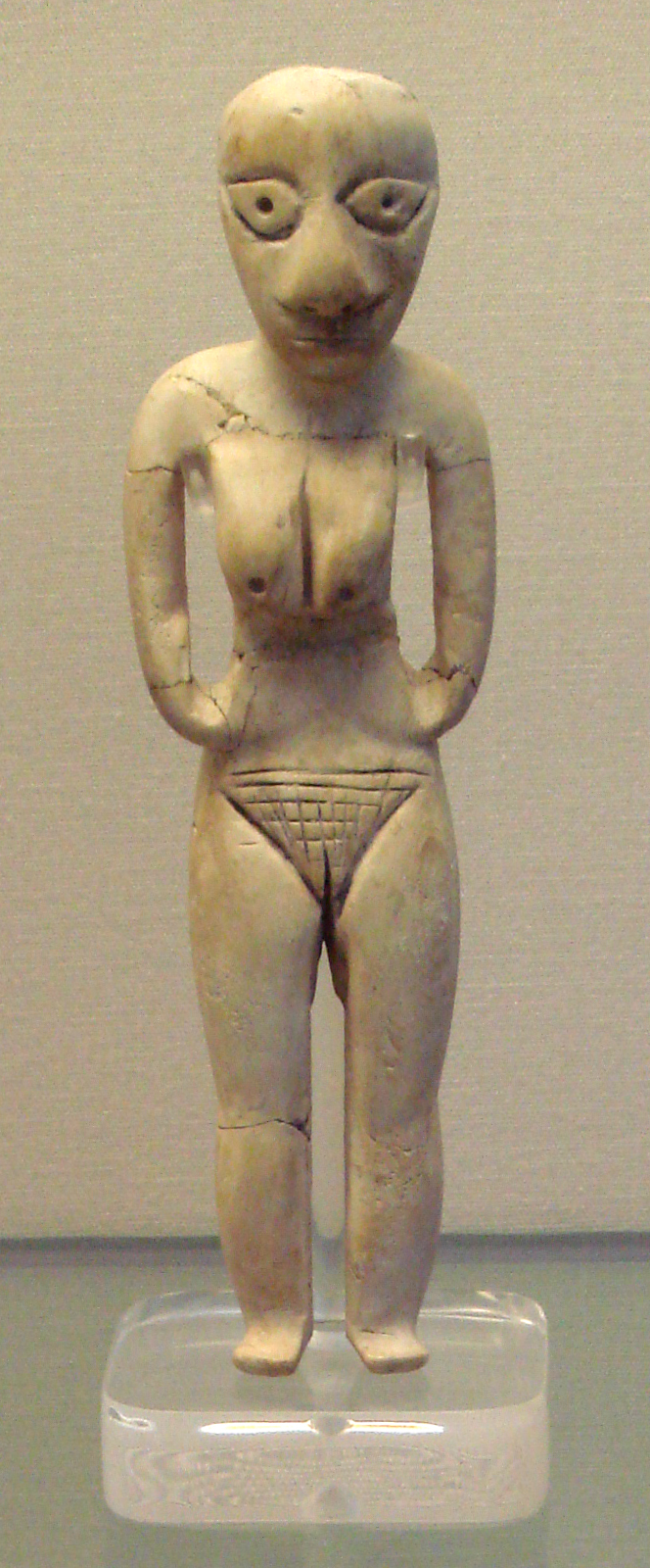 Ancient Badari figure of a woman with incised features (c. 4000 BC), carved out of hippopotamus ivory, located at the British Museum. This type of figure is found in burials of both Badarian men and women, the earliest identifiable culture in Predynastic Egypt. British Museum entry on piece (EA 59648)